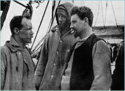 Ernest Joyce, right, with two polar comrades